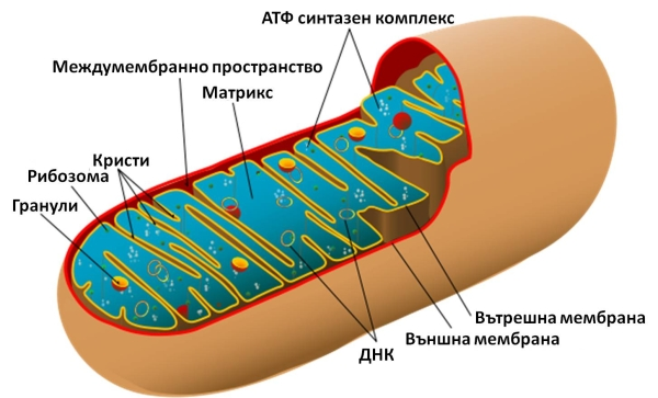 A diagram showing a mitochondrion of the eukaryotic cell. Mitochondria are organelles surrounded by membranes, distributed in the cytosol of most eukaryotic cells. Its main function is the conversion of potential energy of pyruvate molecules into ATP.